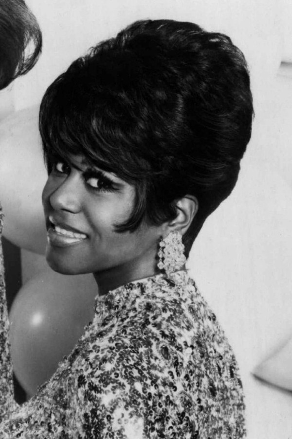 The American singer Cindy Birdsong of the Supremes in a 1967 publicity photograph of GAC-General Artists Corporation-IMTI-International Talent Management Inc.